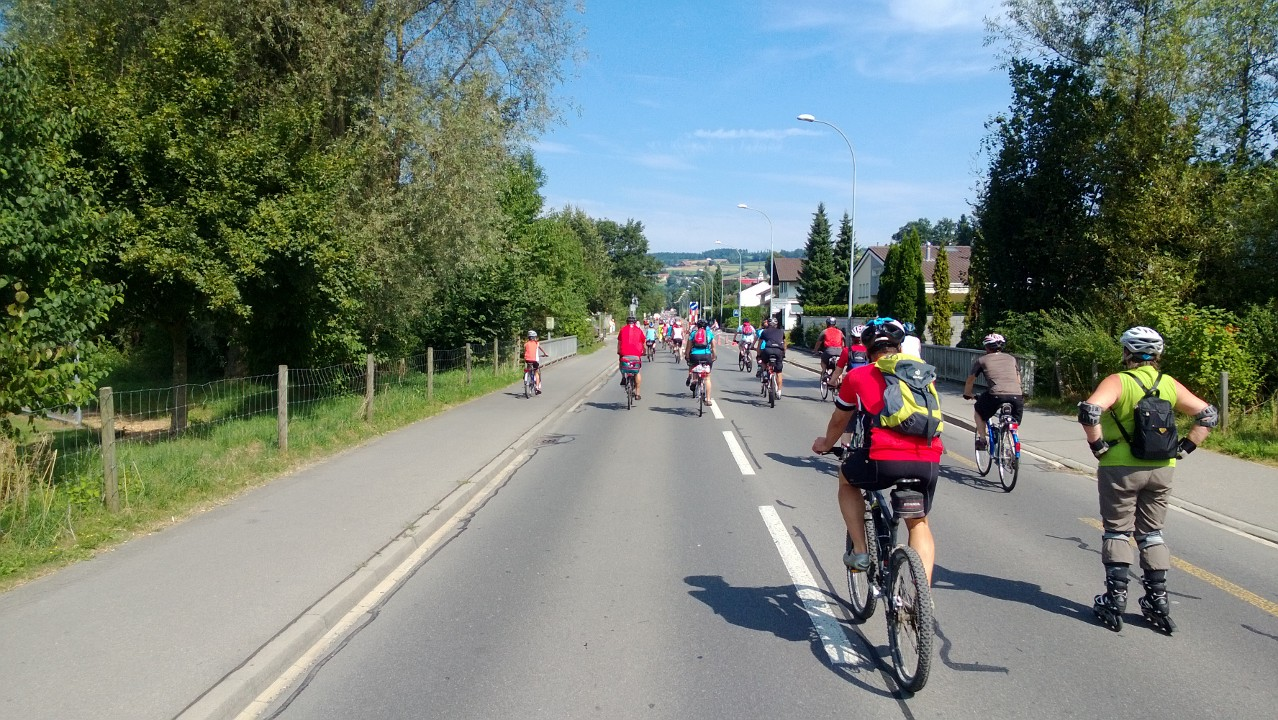 Slowup Sempachersee 2013. Photo taken at Sempach